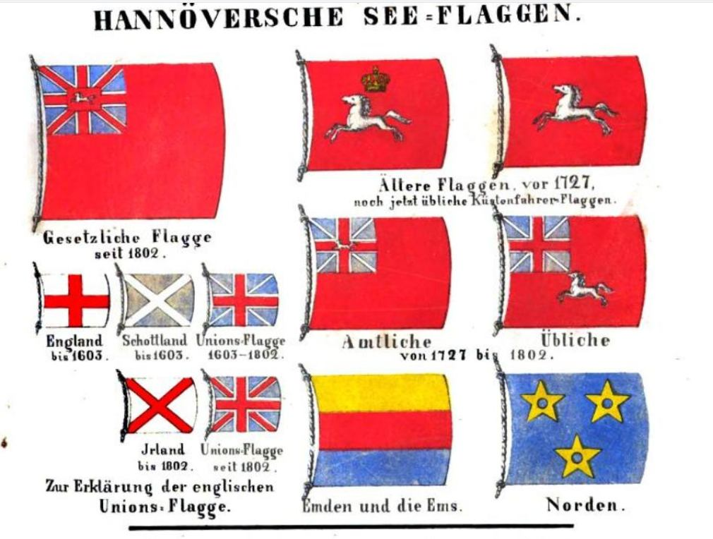 Hannovian Flags, historical